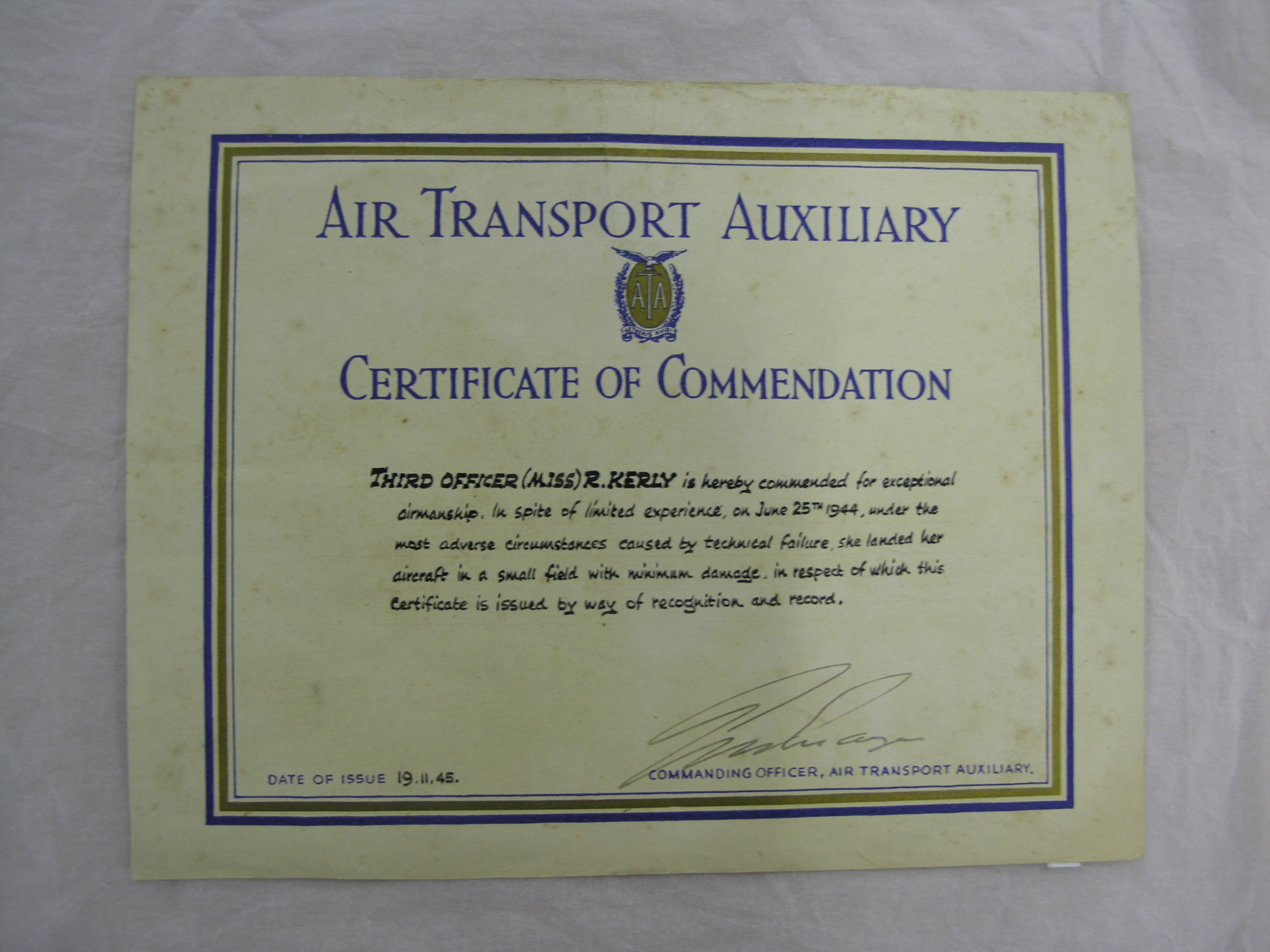 Helen Ruth Kerly - 1916-1992 commended ATA Spitfire pilot